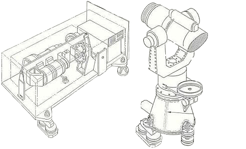 Diagram of the High Resolution Doppler Imager (HRDI) instrument which was flown on the Upper Atmosphere Researh Satellite mission.